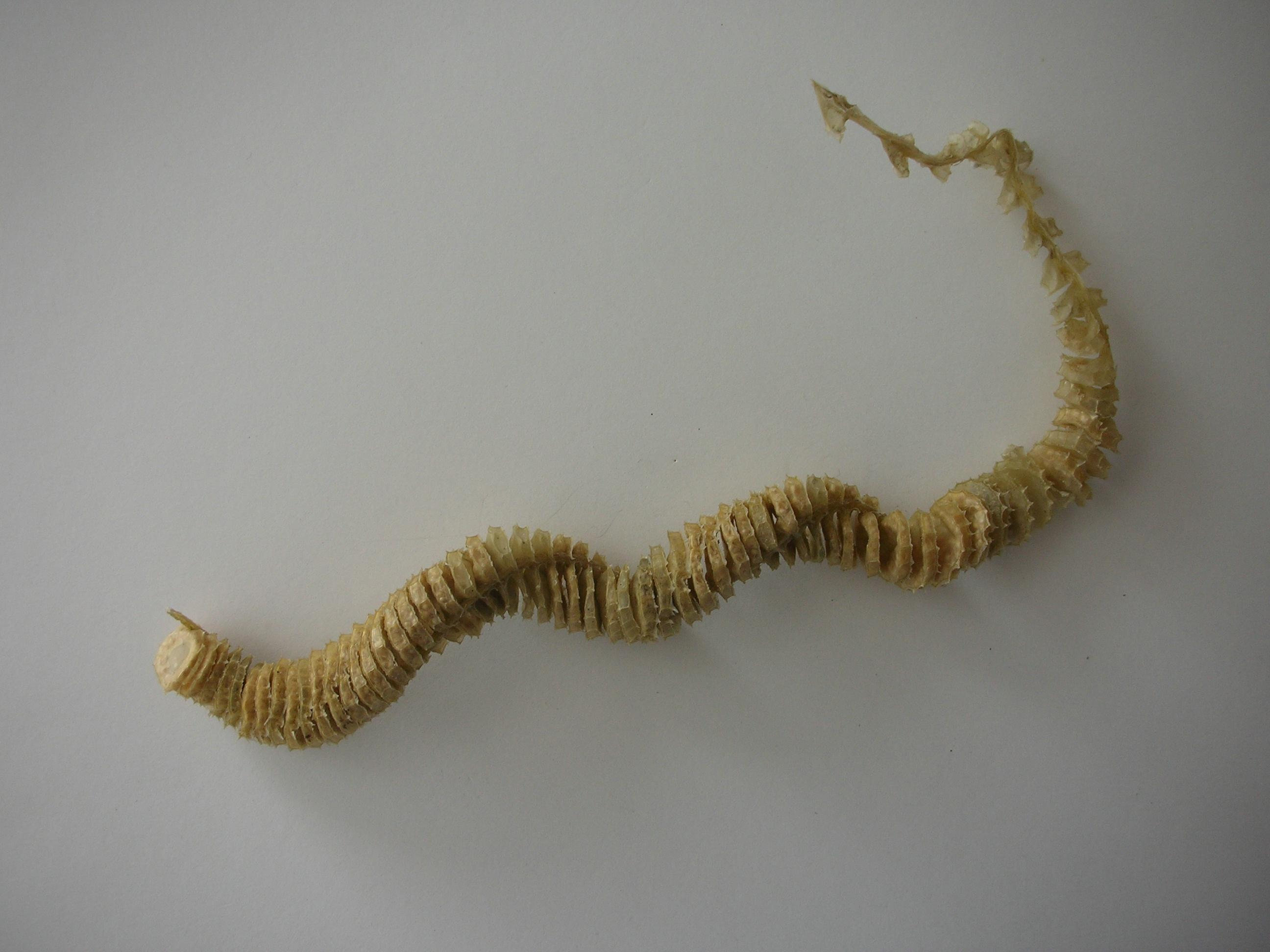 A Whelk egg case found on a beach near Corolla, North Carolina.